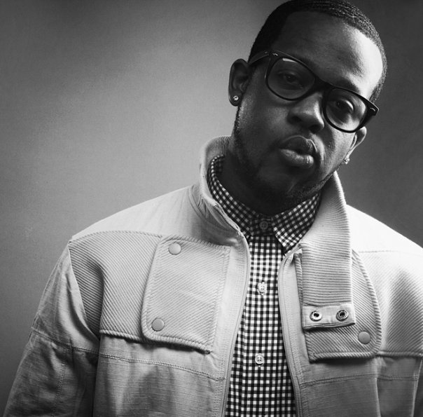 TwentySomething Prom Pic (2010)